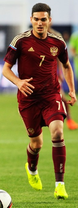 Magomed Ozdoyev